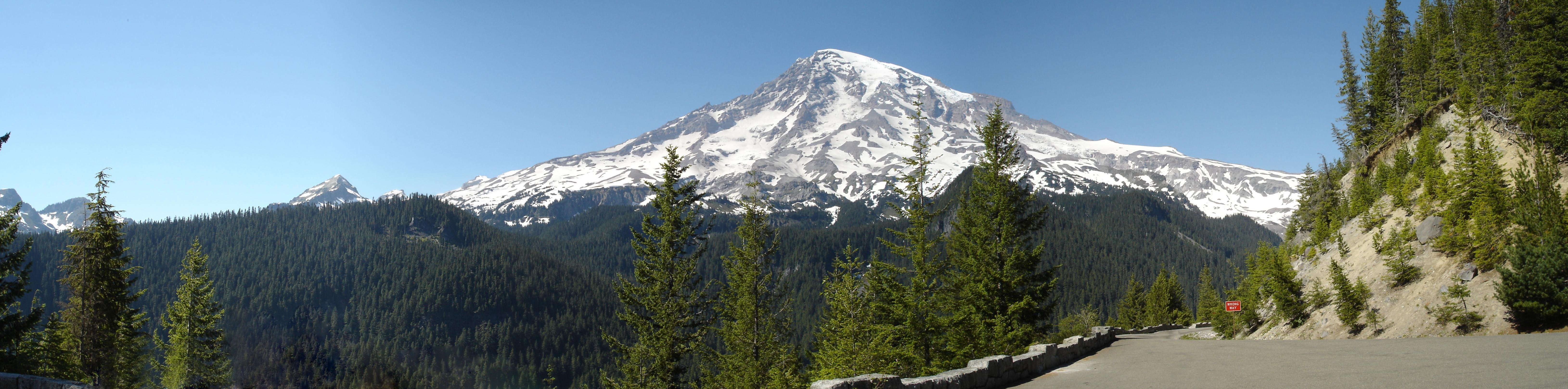 A panorama of the south face of Mount Rainier with Kautz Ice Cliff visible at center viewed from Westside Road, Washington State Route 706, Mount Rainier National Park